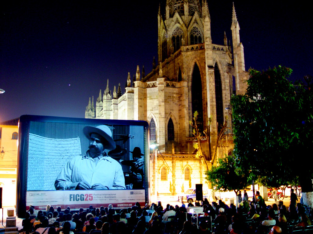 open air screening at Guadalajara Filmfestival